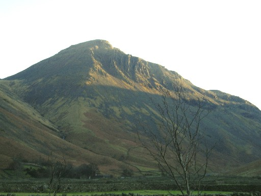 Great Gable, seen from Wasdale Head